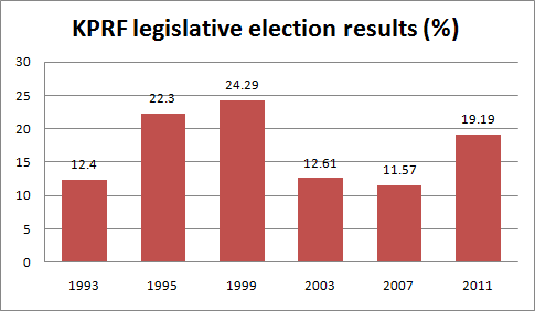 Kprf legislative election